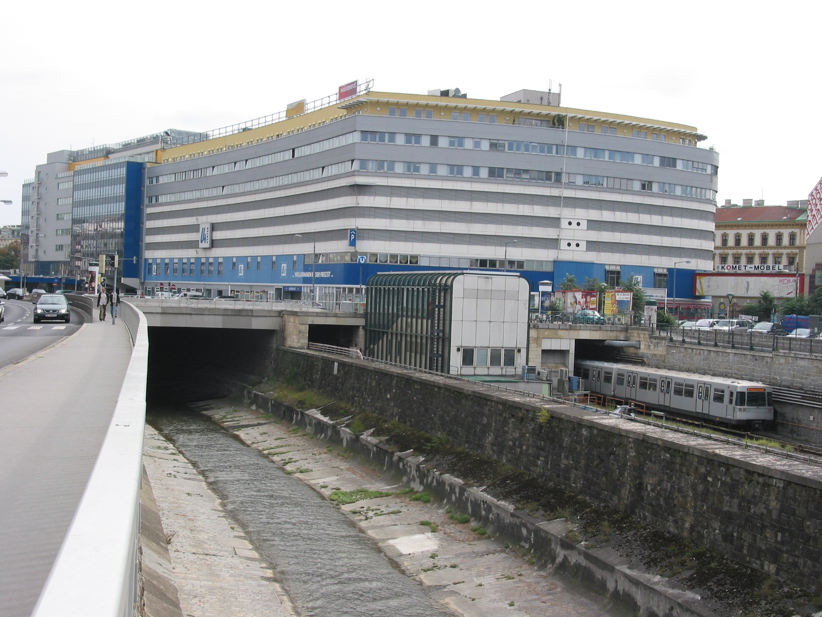 Fabriksbrücke over Wien river, Vienna XII + XV